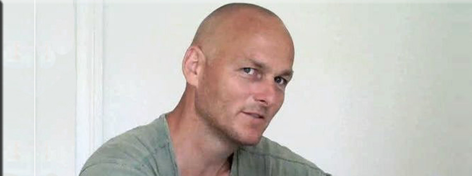 Carsten Graff in his home in Lyngby near Copenhagen